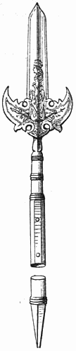 Sponton. Public domain, aus: Meyers Konversationslexikon, 1888 [1]. 12:08, 30. Jul 2004 Magnus Manske 108 x 493 (7.012 Byte) (Sponton)